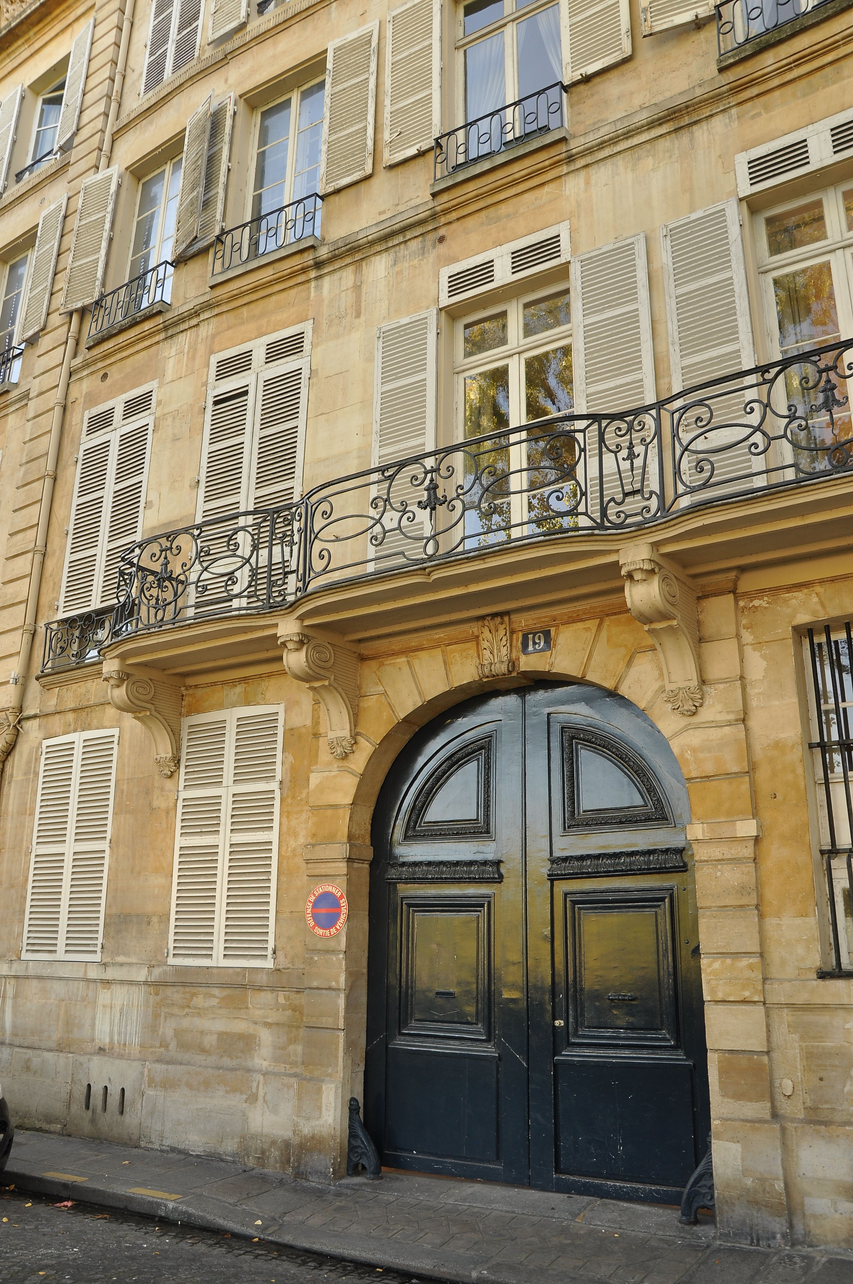 Hôtel de Jassaud located at 19 quai de Bourbon in Paris 4th district